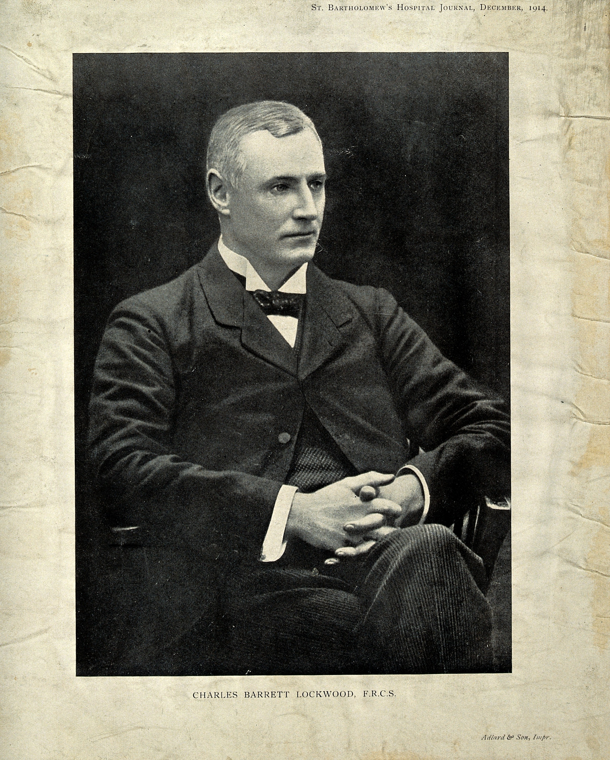 Charles Barrett Lockwood. Photomechanical print after Adlard & Son. Iconographic Collections Keywords: portrait prints